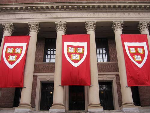 Harvard University's Harry Elkins Widener Memorial Library. From